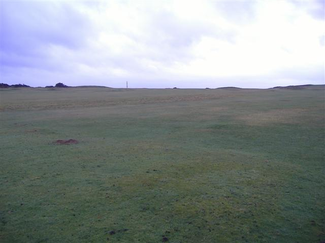 Castletown golf course. Taken from behind the golf shop looking South